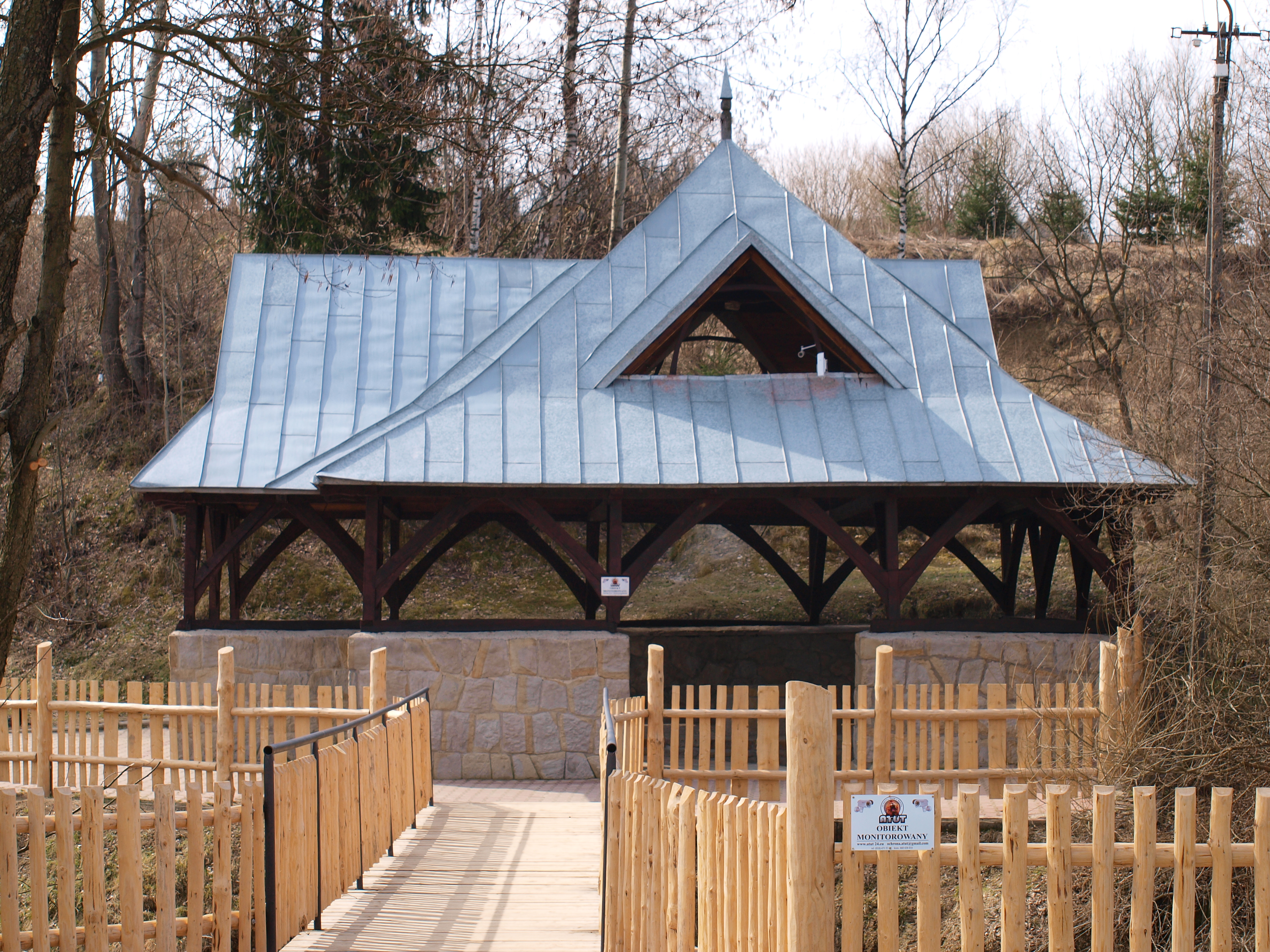 Tylicz - mineral water spring